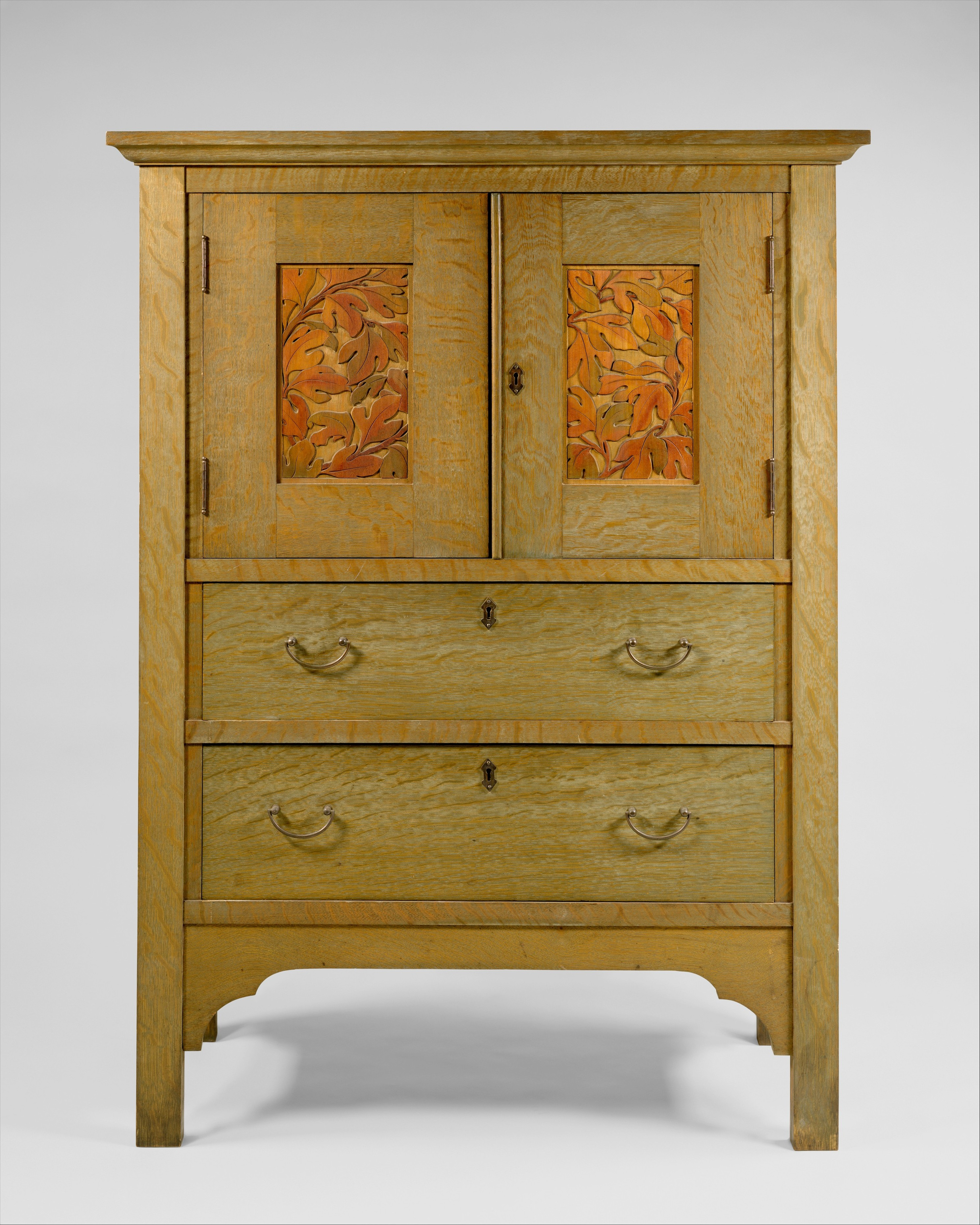 American; Linen press; Furniture